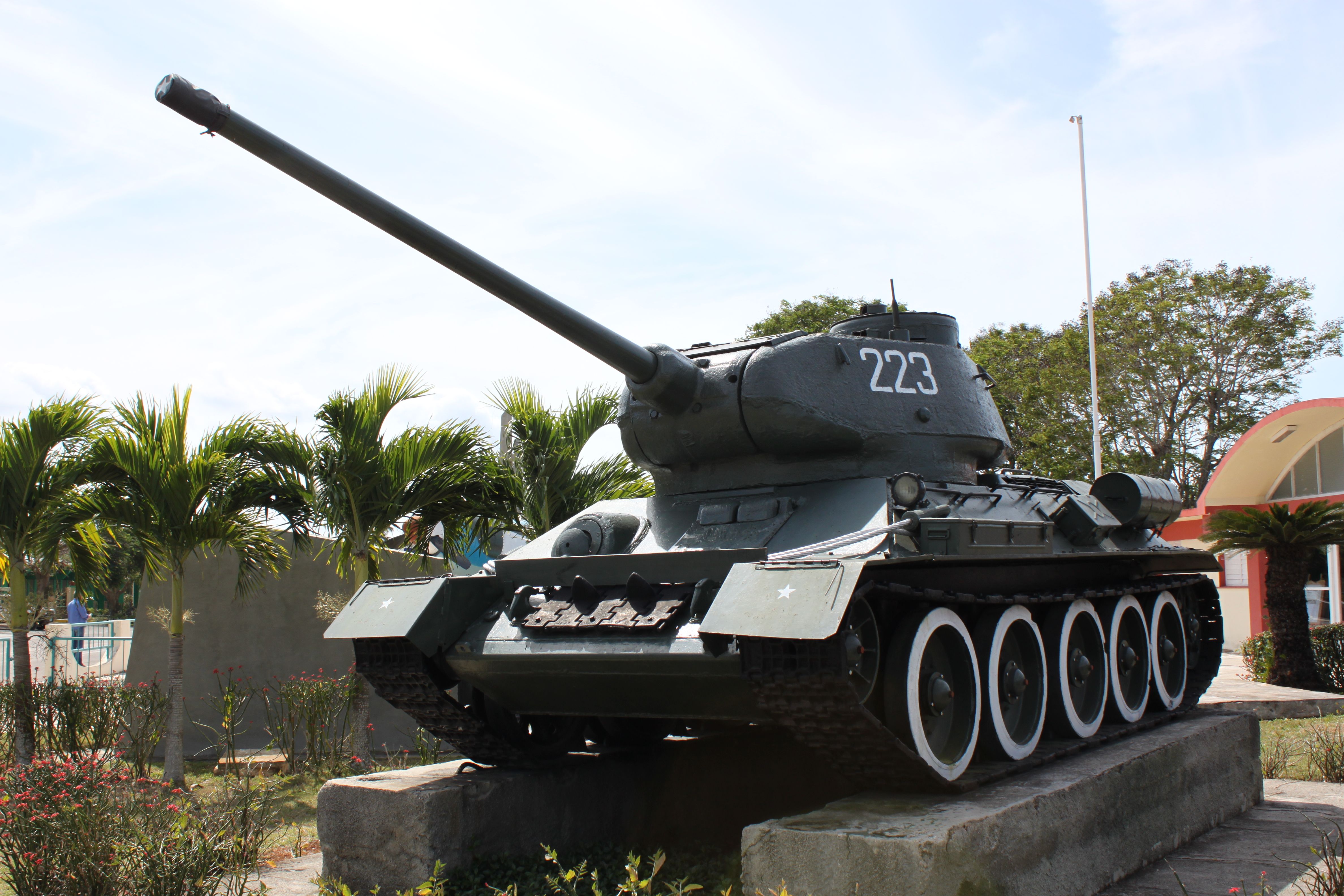 Museo Girón (museum about the invasion in the Bay of Pigs): Tank T-34